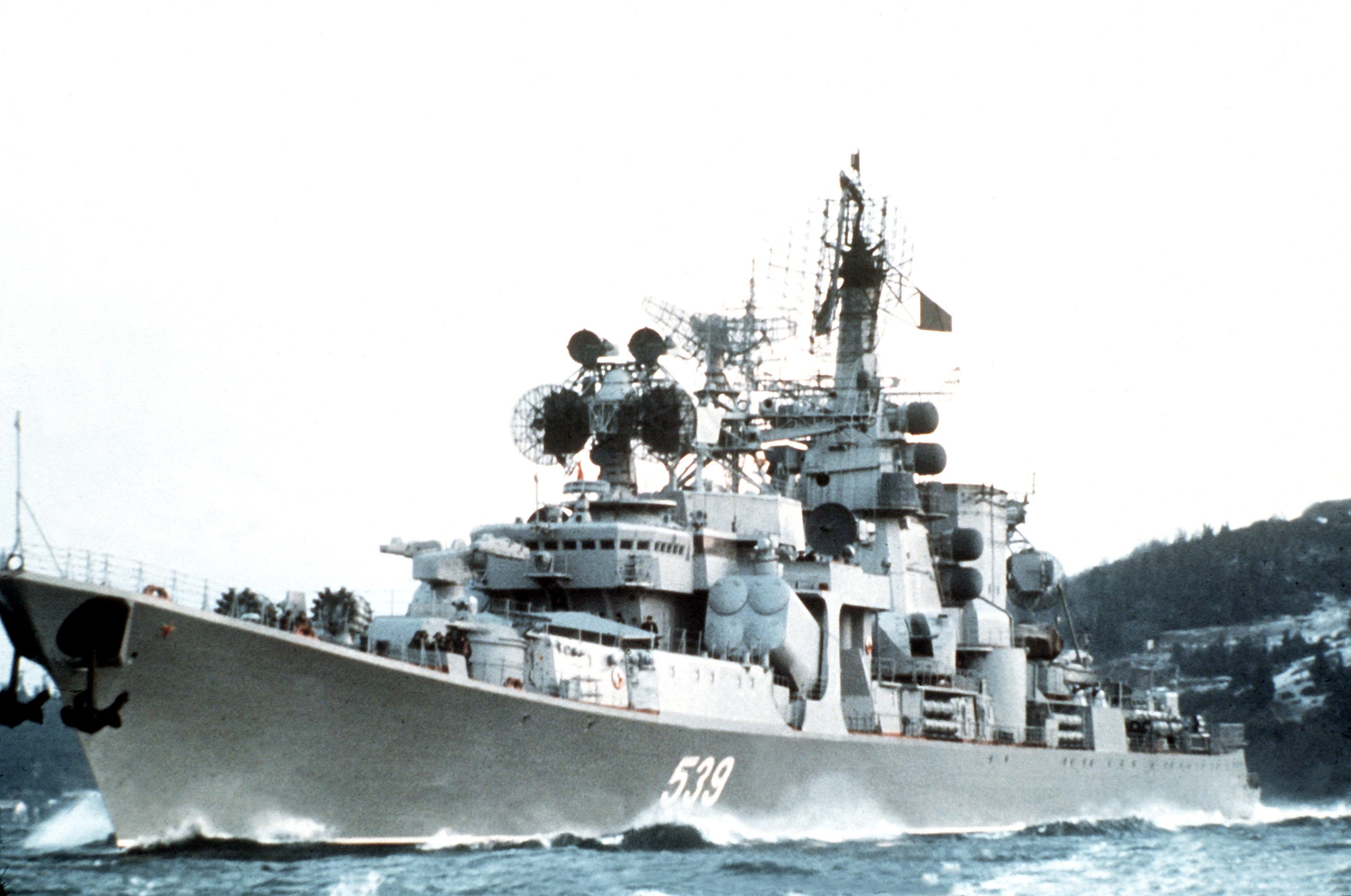 A port bow view of a Soviet Kara class guided missile cruiser underway.